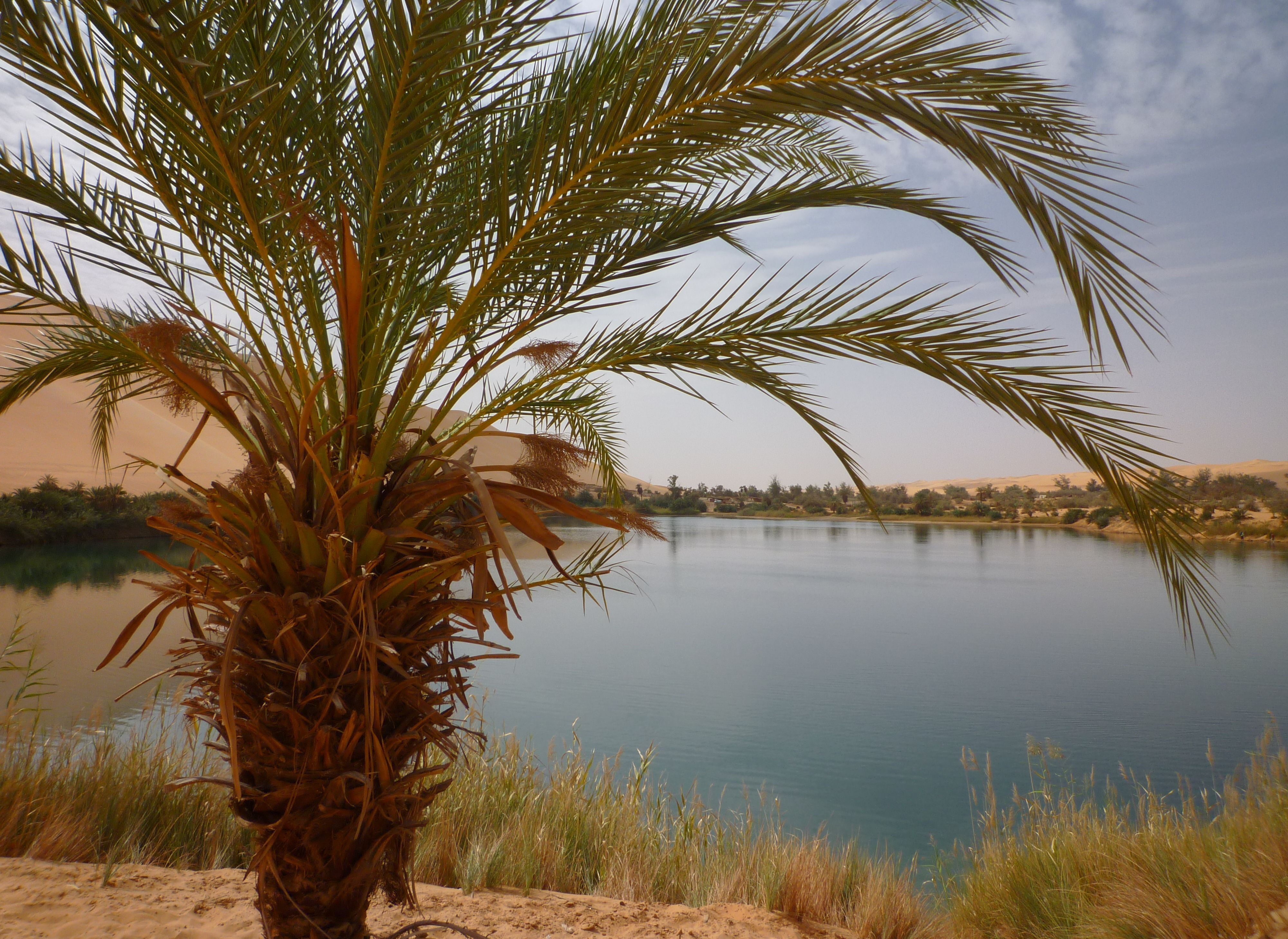 Gaberoun Oasis, with a large lake located in the Sabha District, Fezzan, southwestern Libya.